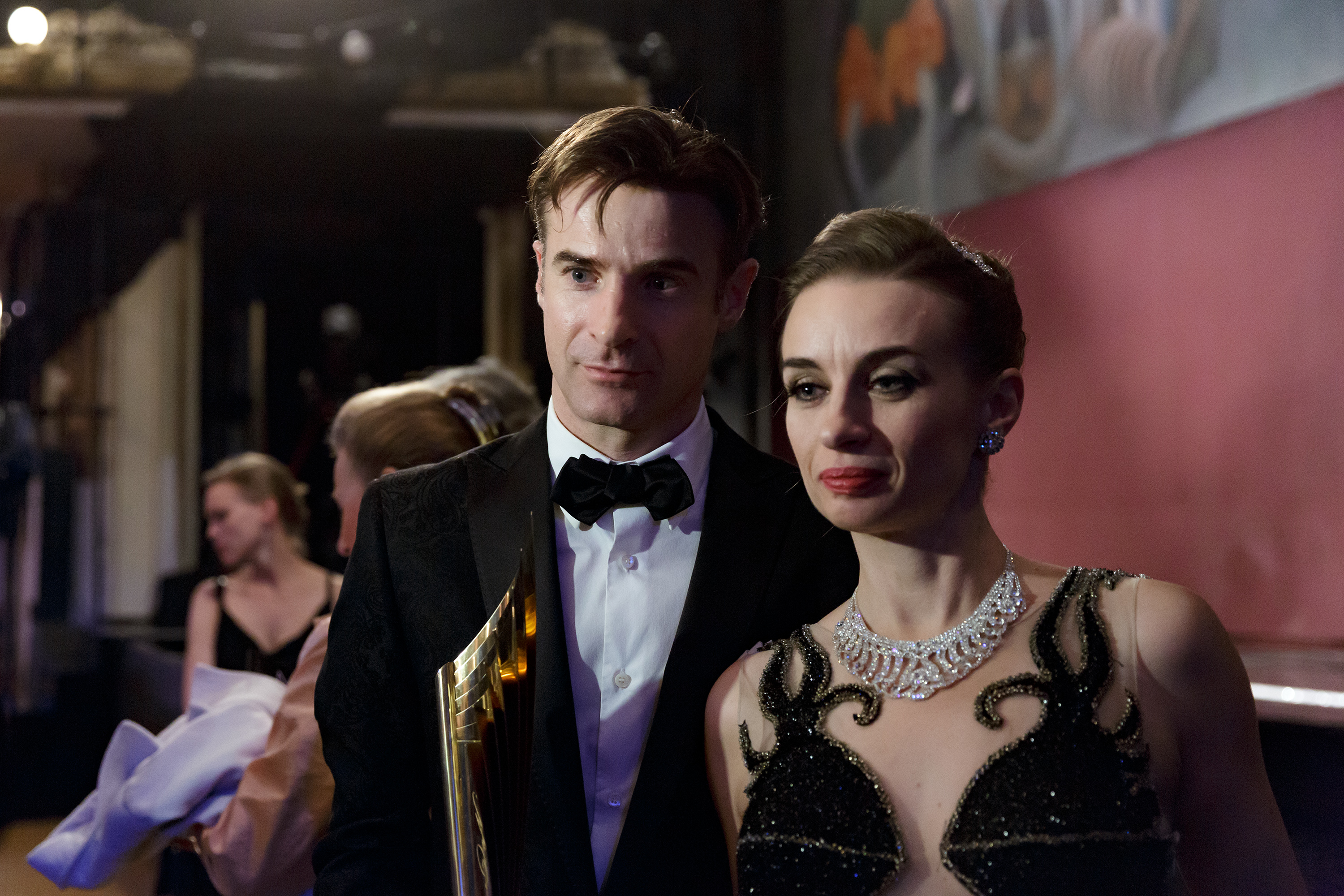 SIGNA - Signa and Arthur Köstler - at the Nestroy Theatre Awards 2016 (Ronacher, Vienna, Austria).